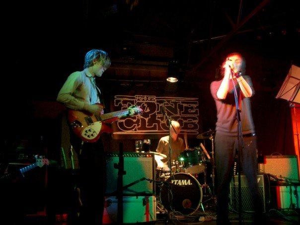 Seachange Performing at the Tone Club, Nottingham Trent University.